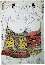 Depiction of two contemporary sumo wrestlers as listed in the title of file